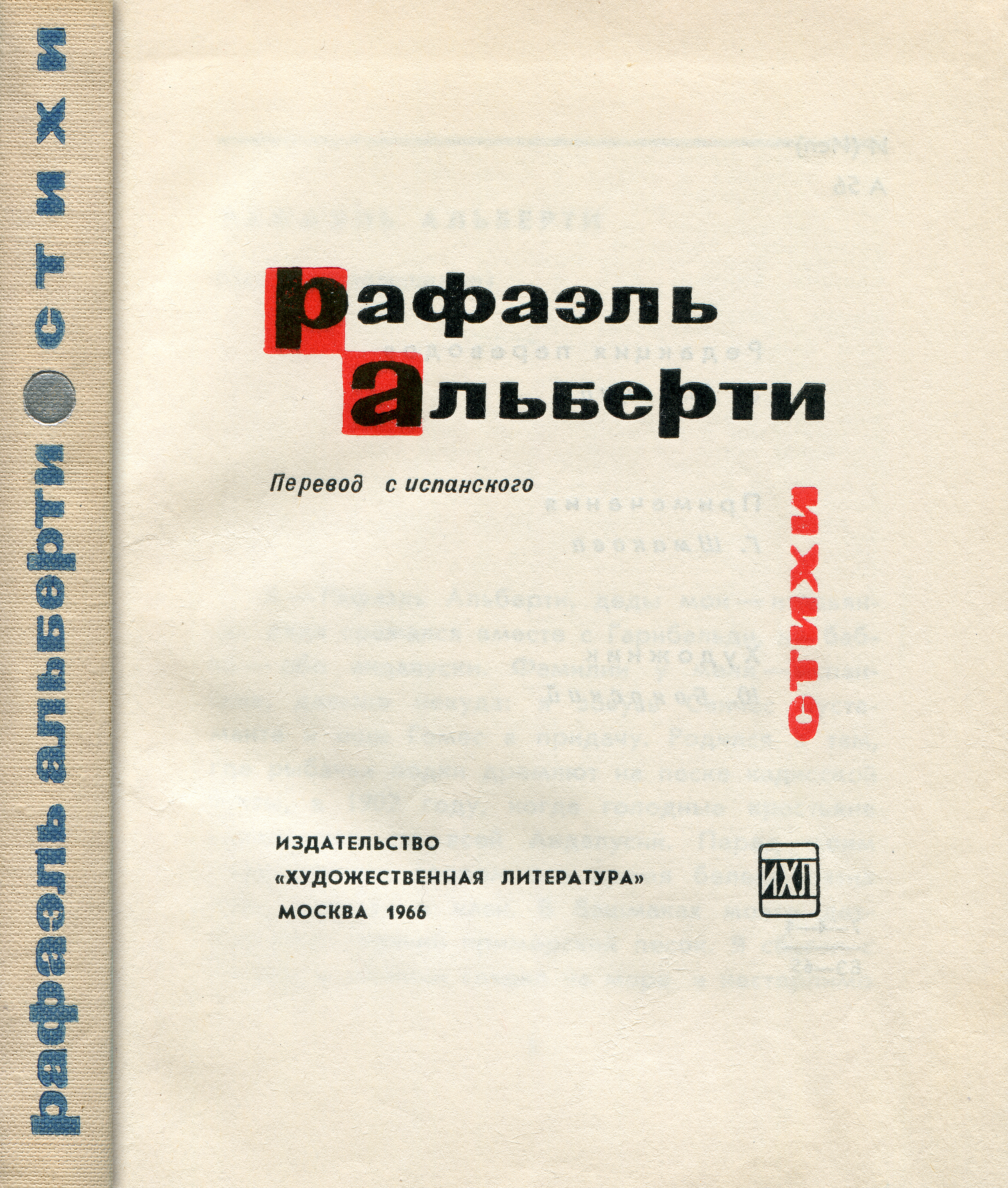 Book. Rafael Alberti.